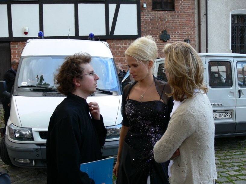 Photo of conductor Krzysztof Czerwinski and soprano singer Anita Rywalska-Sosnowska after Polish Baroque Orchestra concert in Gdansk (31 August 2006).